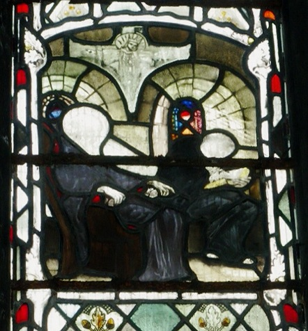 In one of Christopher Whall's windows in the Lady Chapel of Gloucester Cathedral he has depicted St Patrick, St Bede, St Helen, St Bridget and St David of Wales. Below he has painted vignettes which depict scenes in the lives of each Saint. St Bede is shown dictating the last lines of his translation of the Bible. In Whall's own notes on the Gloucester windows he added "Write quickly" (He died as the last verse was written). However this inscription does not appear on the window or has perhaps faded with time.